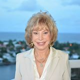 Rivka Bertisch Meir in Miami (2013)